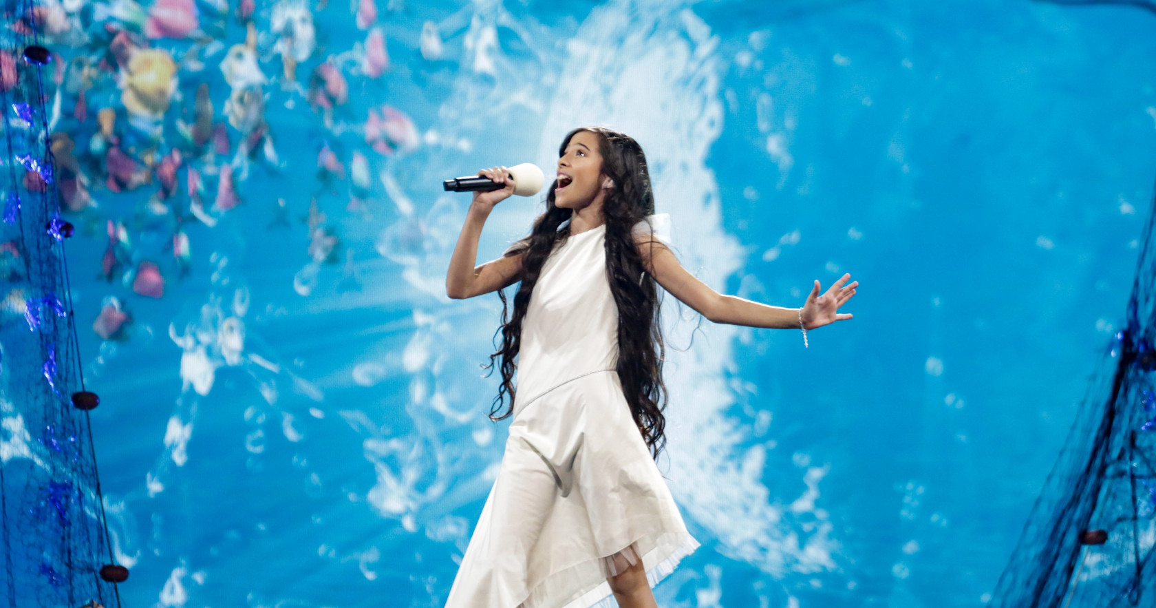 Мелани Гарсия из Испании на Сцене «Детского Евровидения 2019»